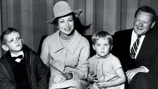 Danish prime minister Jens Otto Krag with wife Helle Virkner (actress), and their children in 1971.